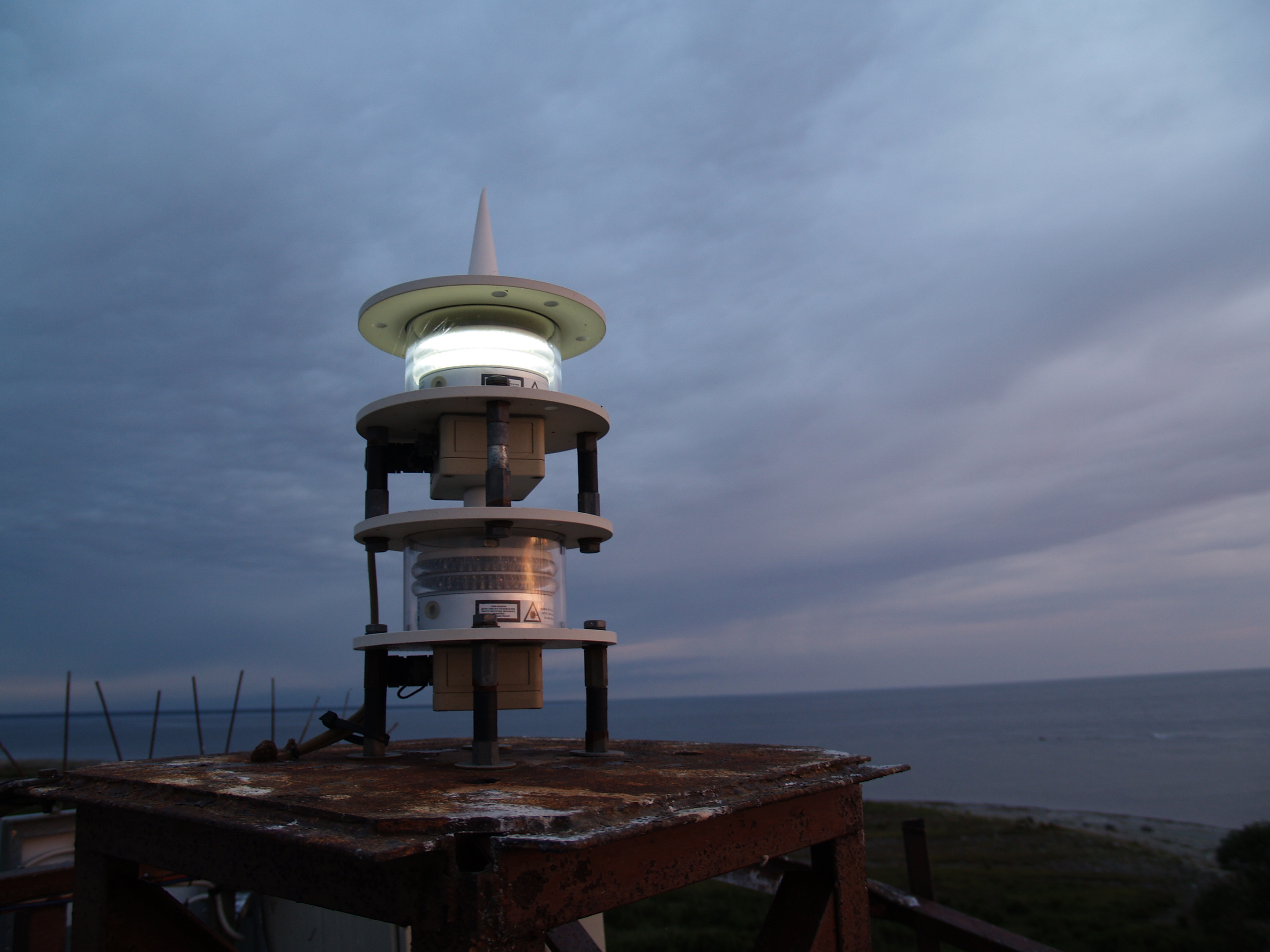 Suur-Pakri light beakon. Light is made by Estonian company Cybernetica.